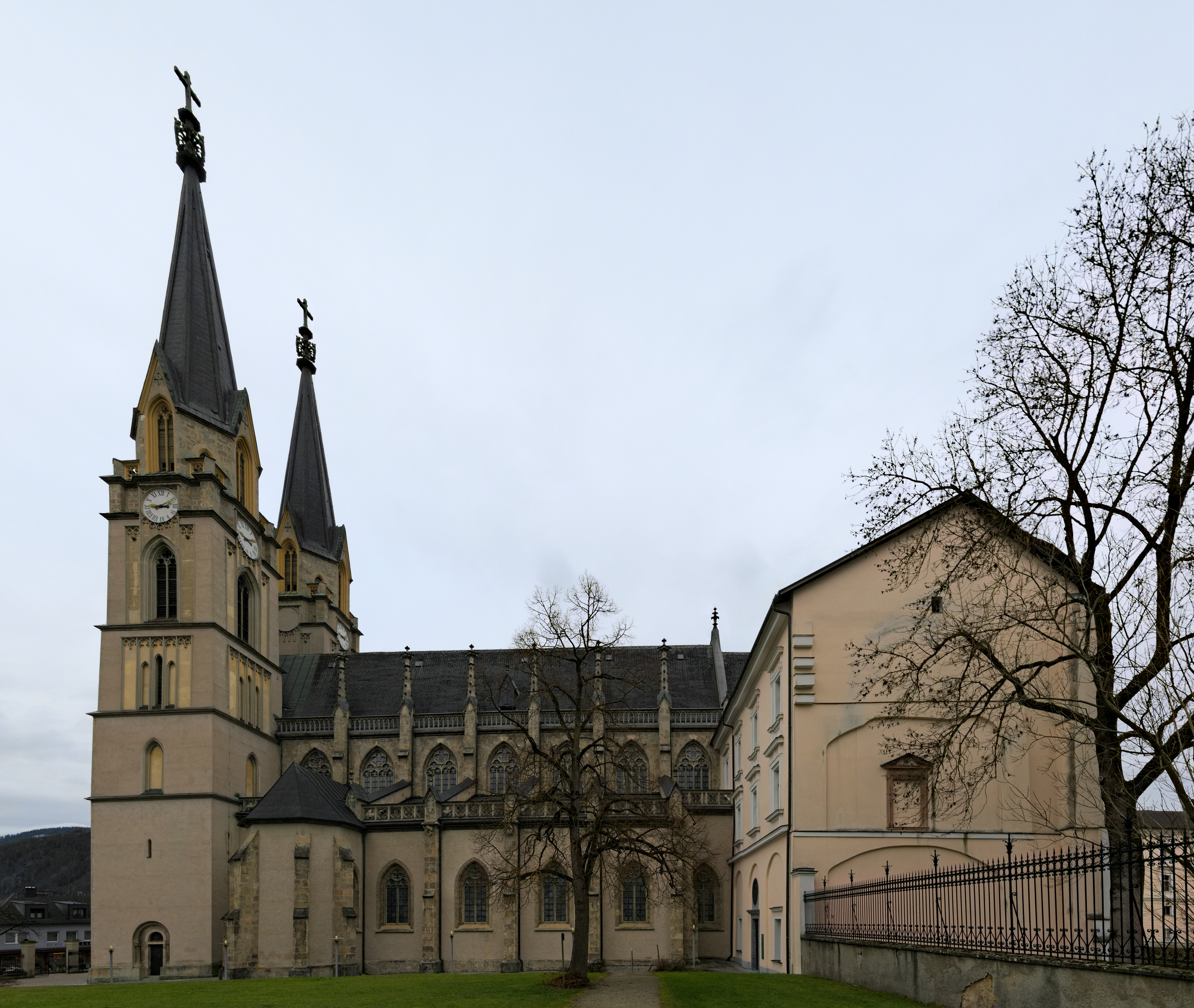 The Stiftskirche Admont (main church of Abbey Admont), seen from the south.